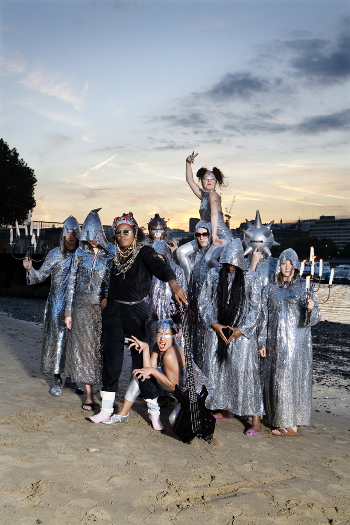 Chrome Hoof dressed; experimental alternative orchestra